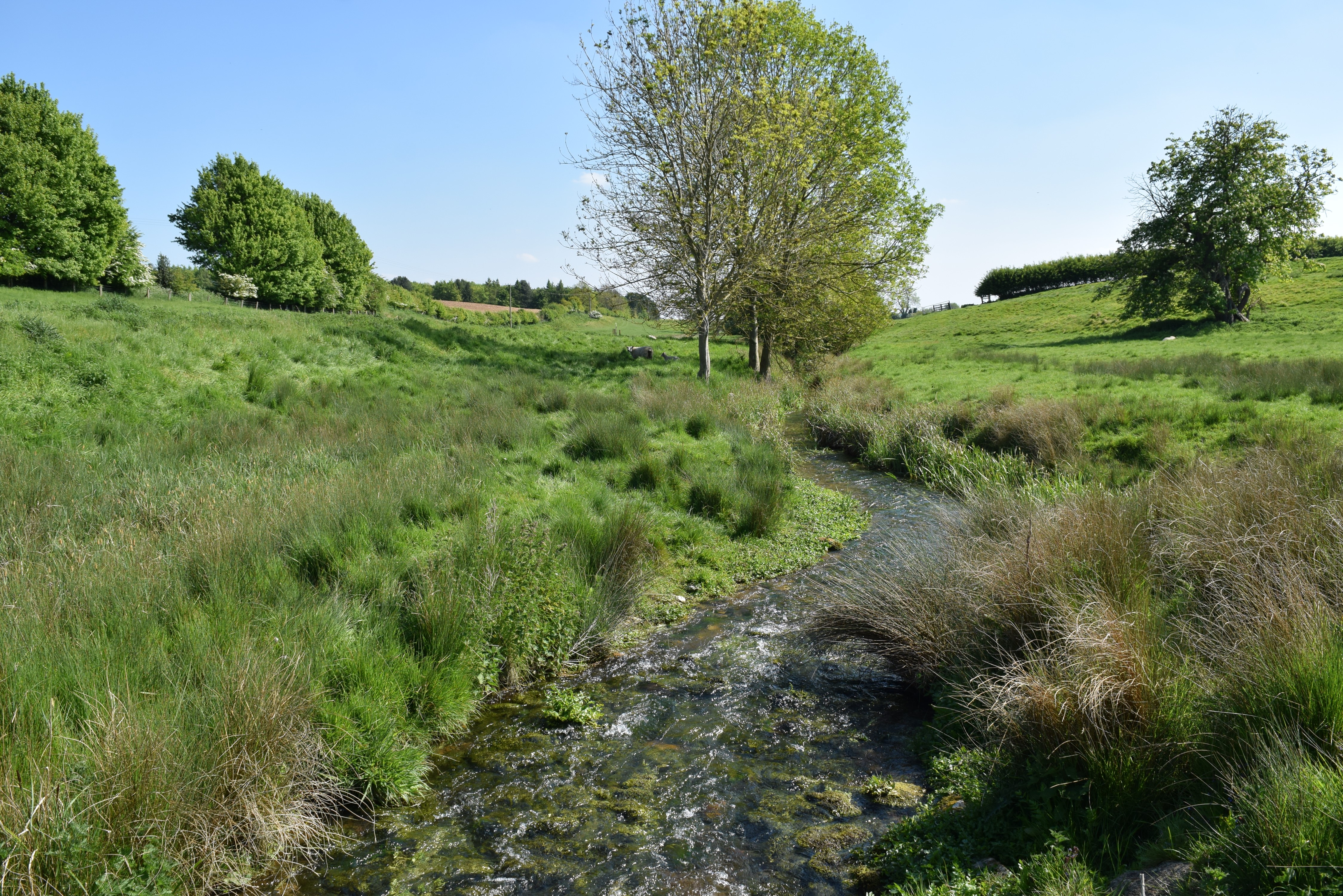 The North Brook flowing southwards towards Horn Mill through the grounds of Exton Hall Estate.